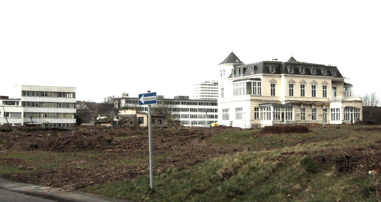 Area of the extension of the International Congress Center Bundeshaus Bonn (IKBB), on the right the Dahm Villa can be seen. After the extension it will be called United Nations Congress Center (UNCC).